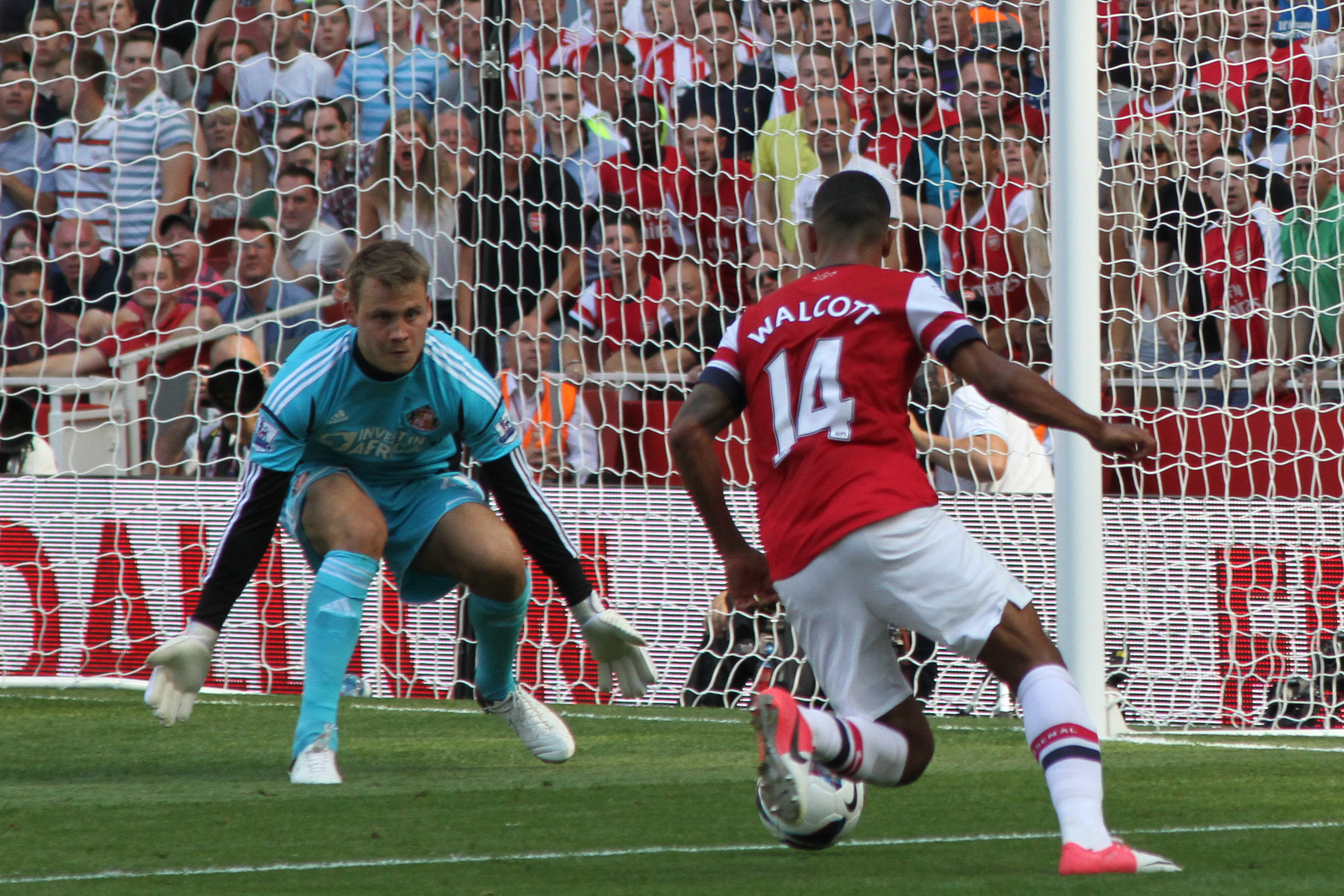 Simon Mignolet & Theo Walcott